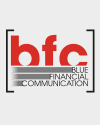 This is the logo used by Italian publishing company Blue Financial Communication between 1995 and 2015. This file is licensed under a free license for Wikimedia Commons by copyright holder Blue Financial Communication S.p.A.